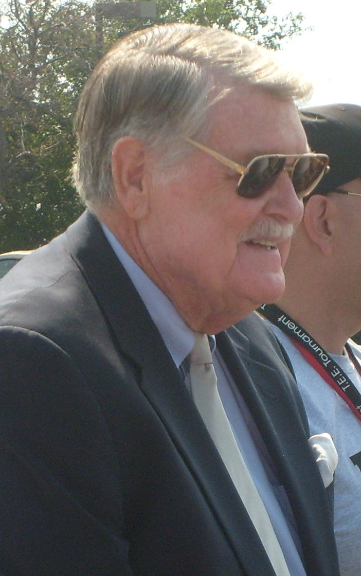 Hayden Fry riding during a parade in his honor during the 2009 "Fry Fest."